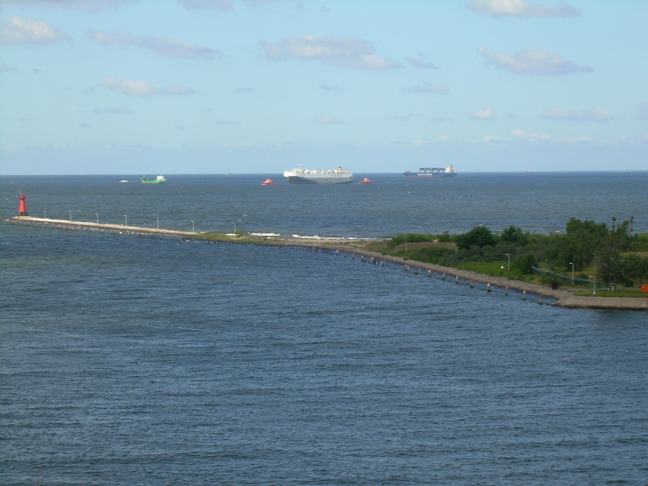 Nowy Port in Gdańsk.